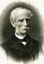 Anselmo José Braamcamp de Almeida Castelo Branco (1819-1885)